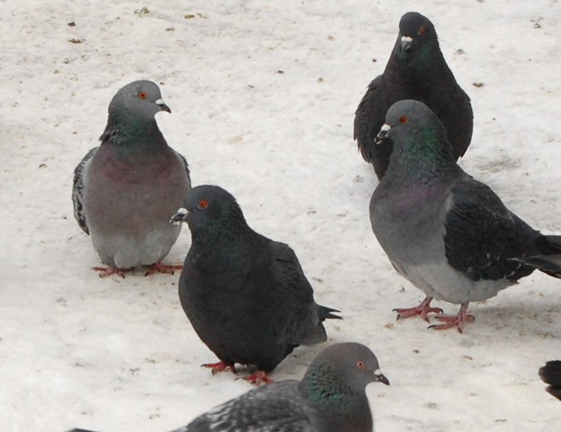 Rock Pigeon in the snow, Montreal, Canada